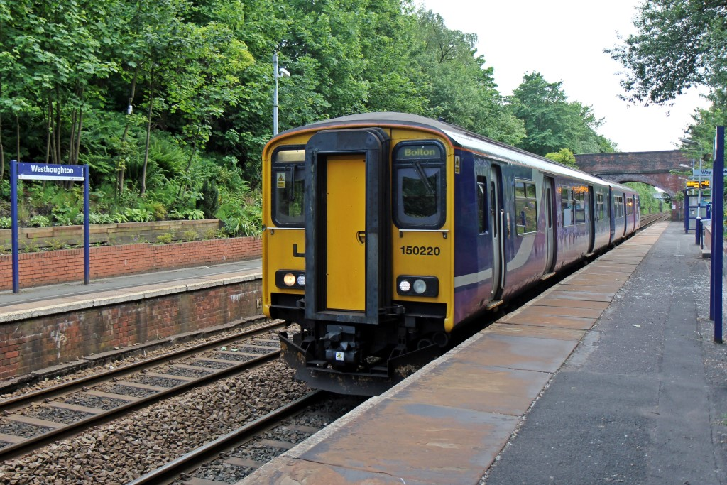 Northern Rail Class 150, 150220, Westhoughton railway station